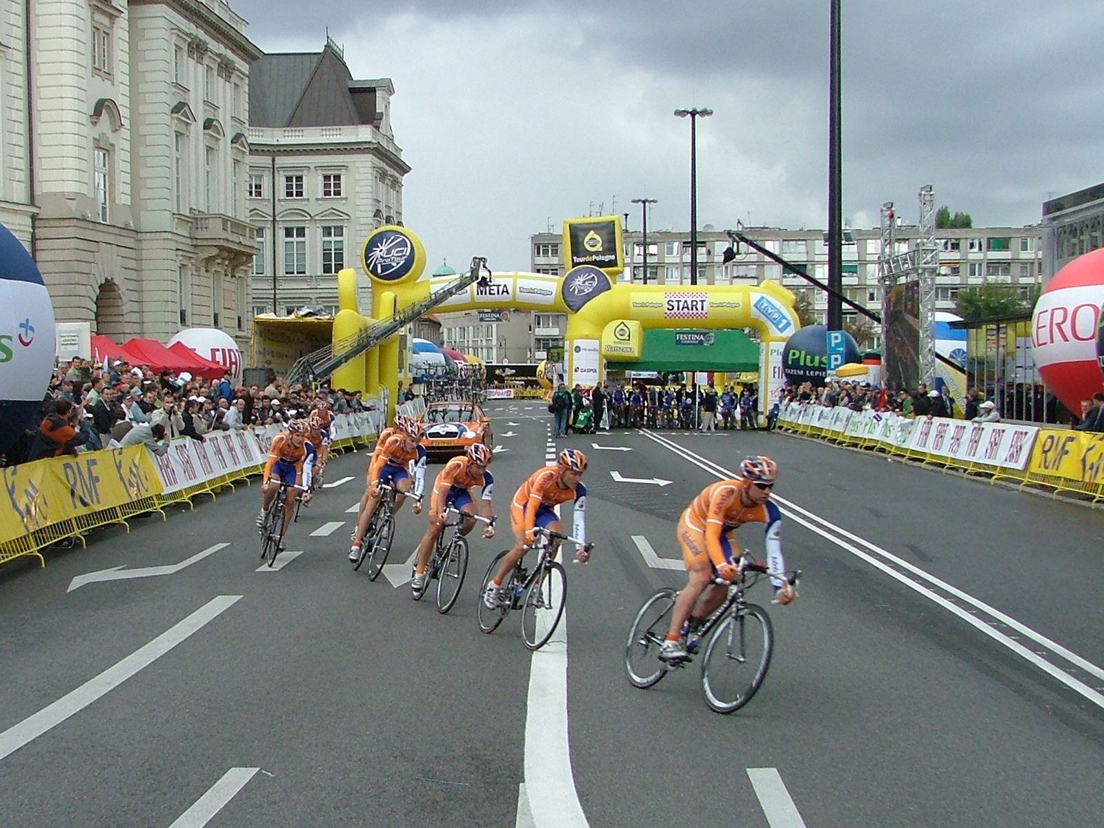 Poland, Warsaw, Tour de Pologne 2007, Stage 1